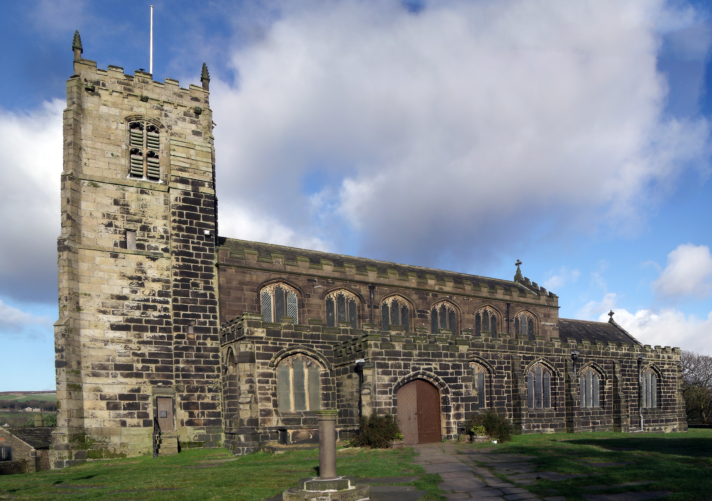 Photograph of St Michael's Church, Mottram in Longdendale, Greater Manchester, England